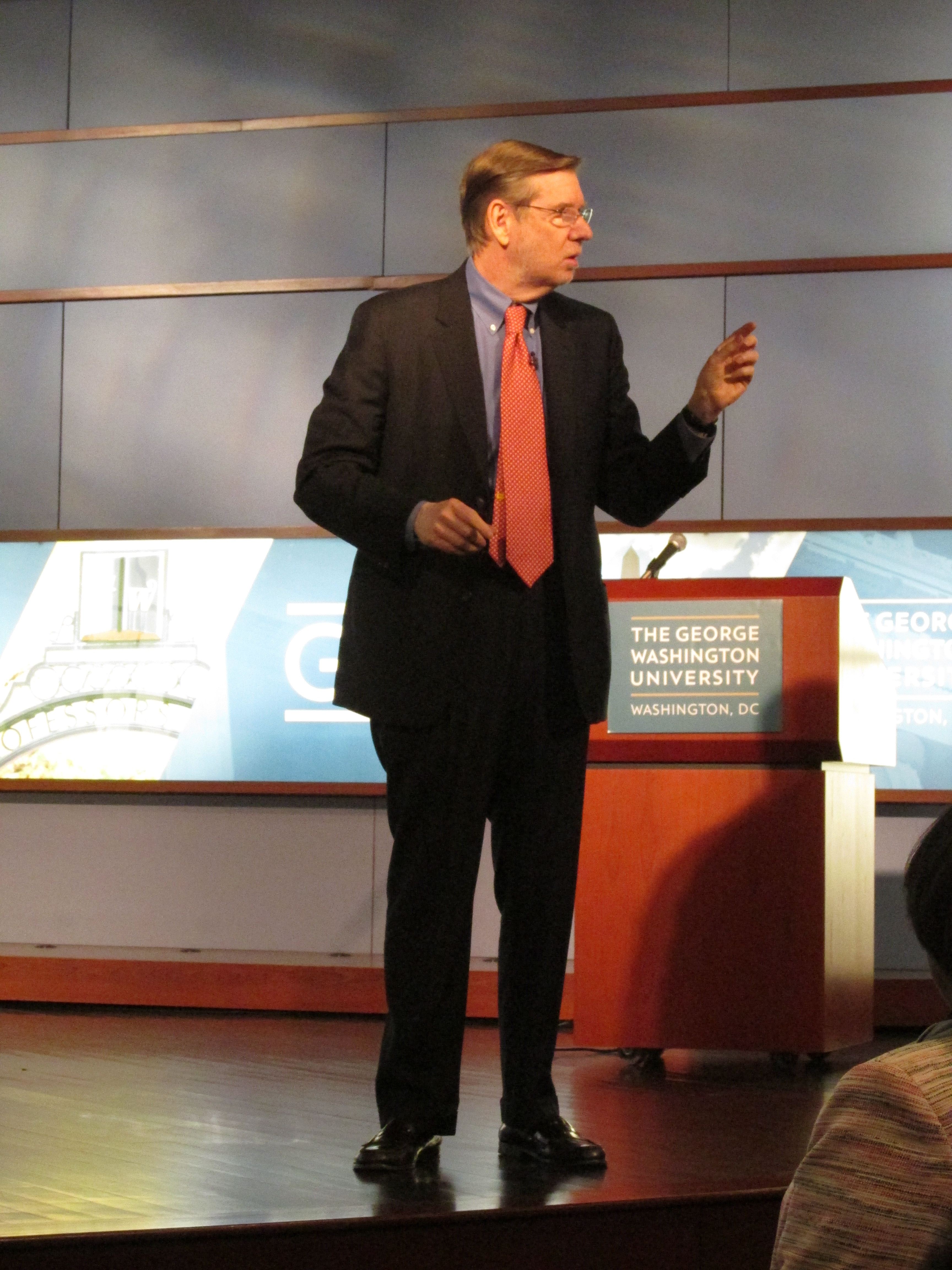 David Aaron Kessler, former Commissioner of the Food and Drug Administration (FDA) speaking at George Washington University's Jack Morton Auditorium.